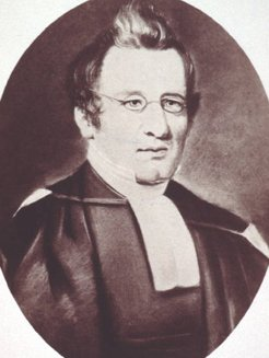 Philip Palmer (1799-1853), by unknown artist Allport Library and Museum of Fine Arts, State Library of Tasmania